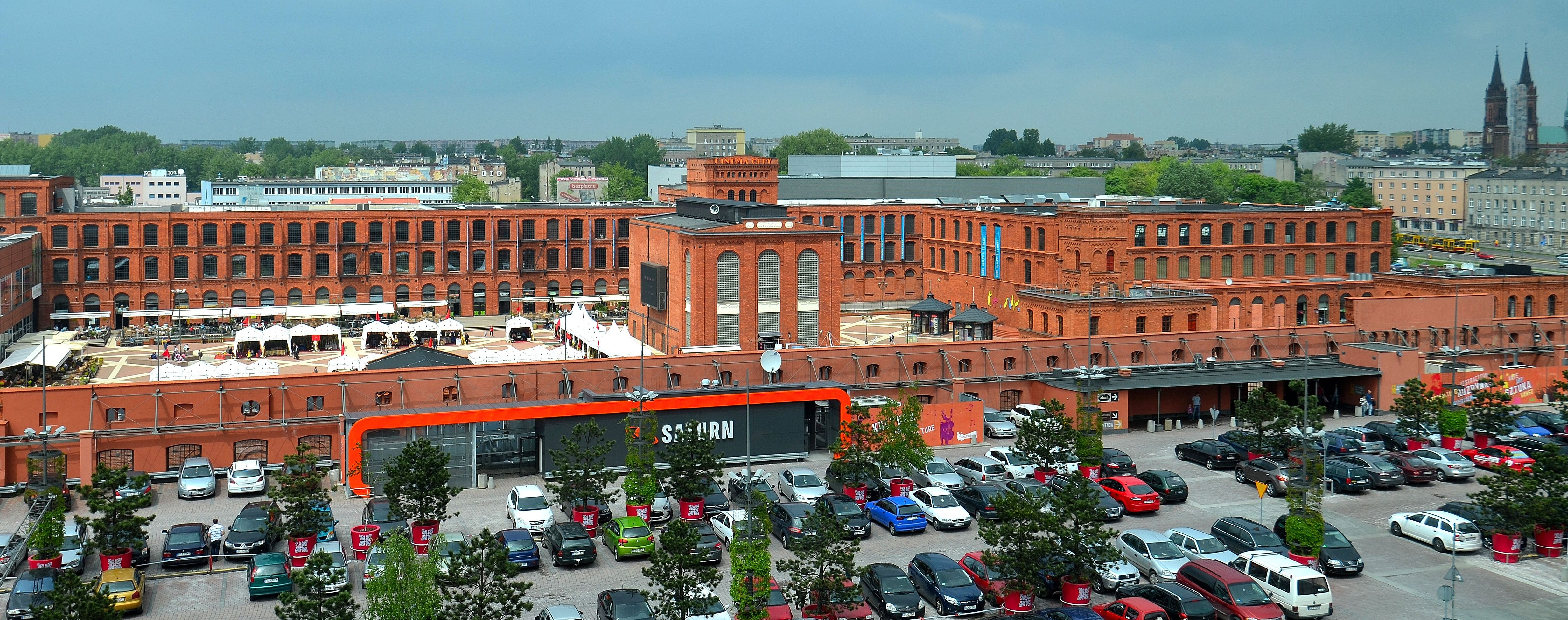 Manufaktura Shopping Centre, former manufacturing complex of Israel Kalmanovich Poznański in Łódź